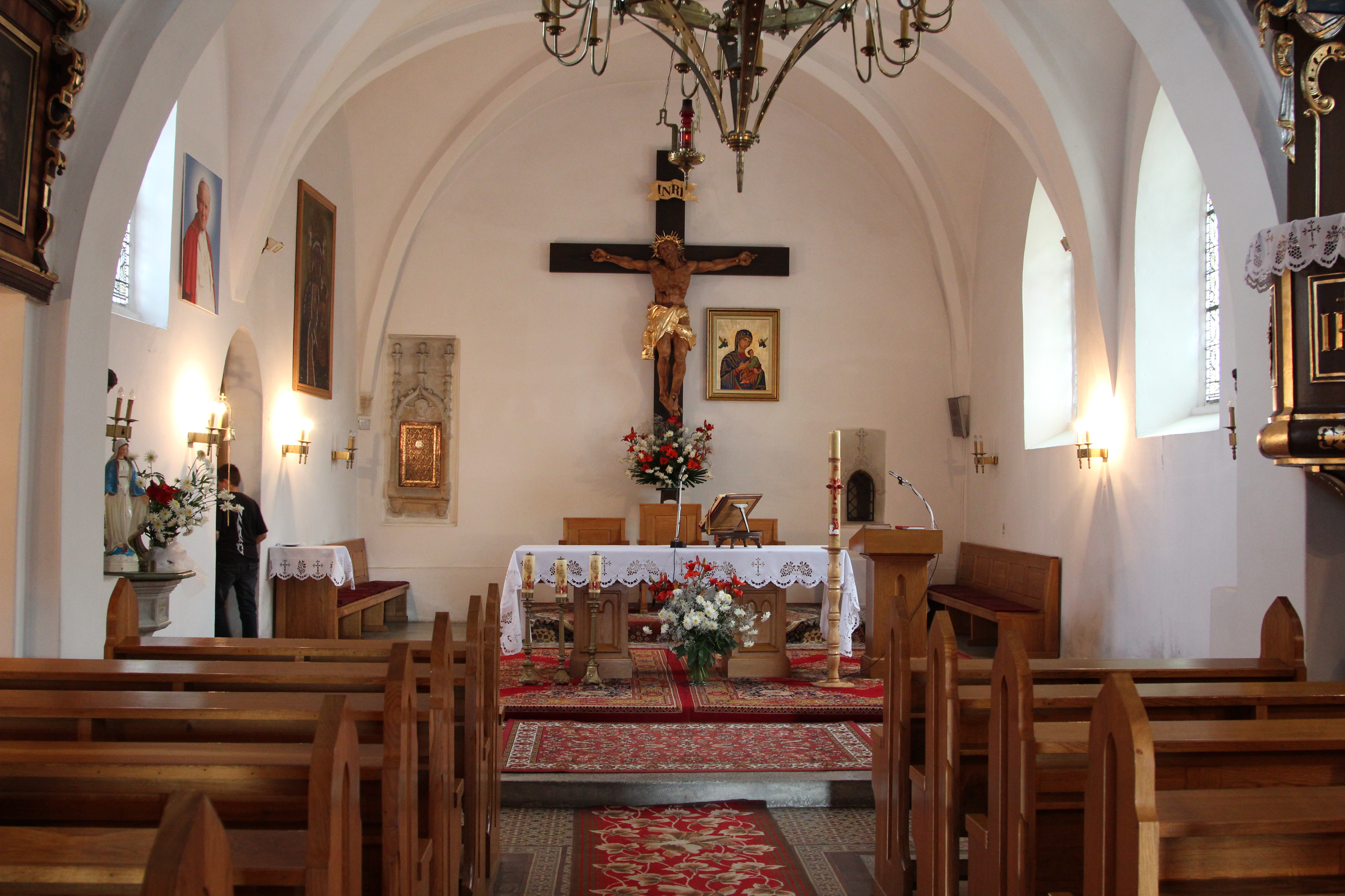 Saint Joseph church in Lutynia, Środa Śląska County, interior view